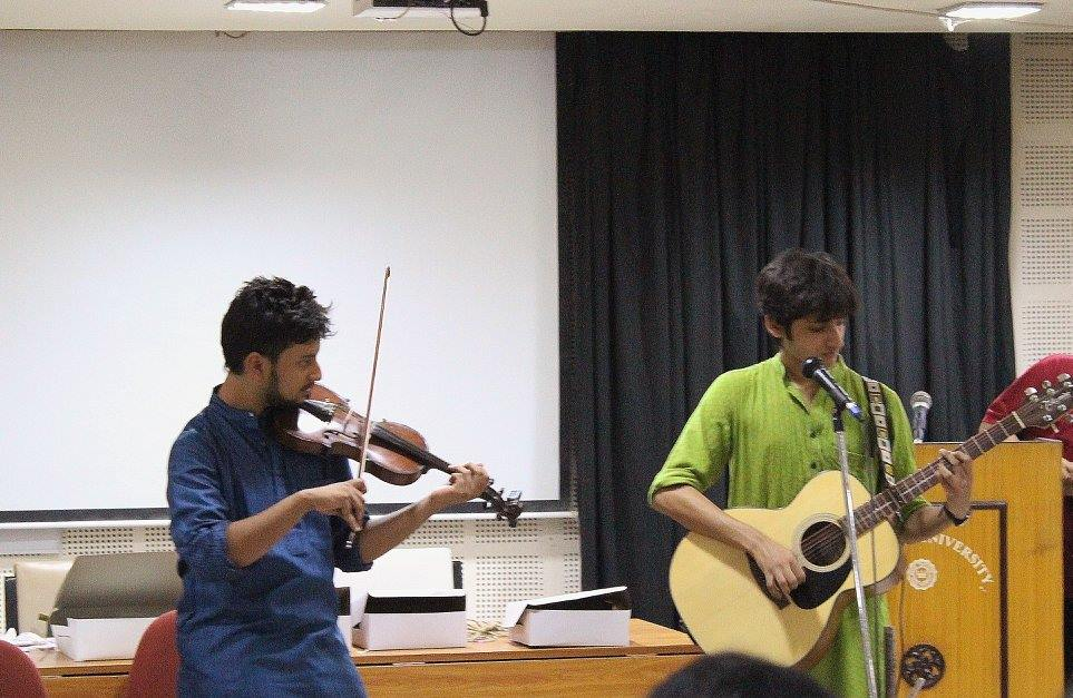 JU farewell